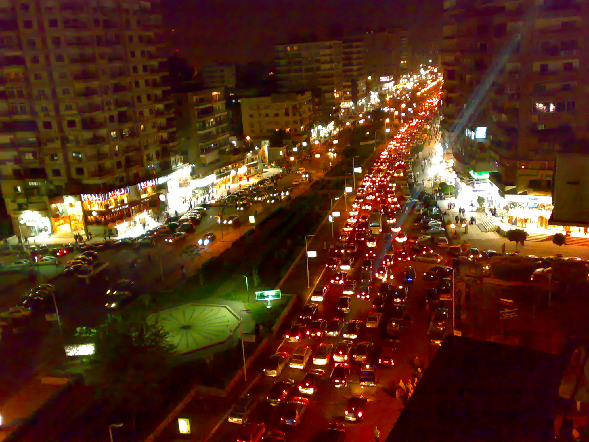 Abbas El Akad Street in Nasr City, Greater Cairo, at night with a traffic jam.